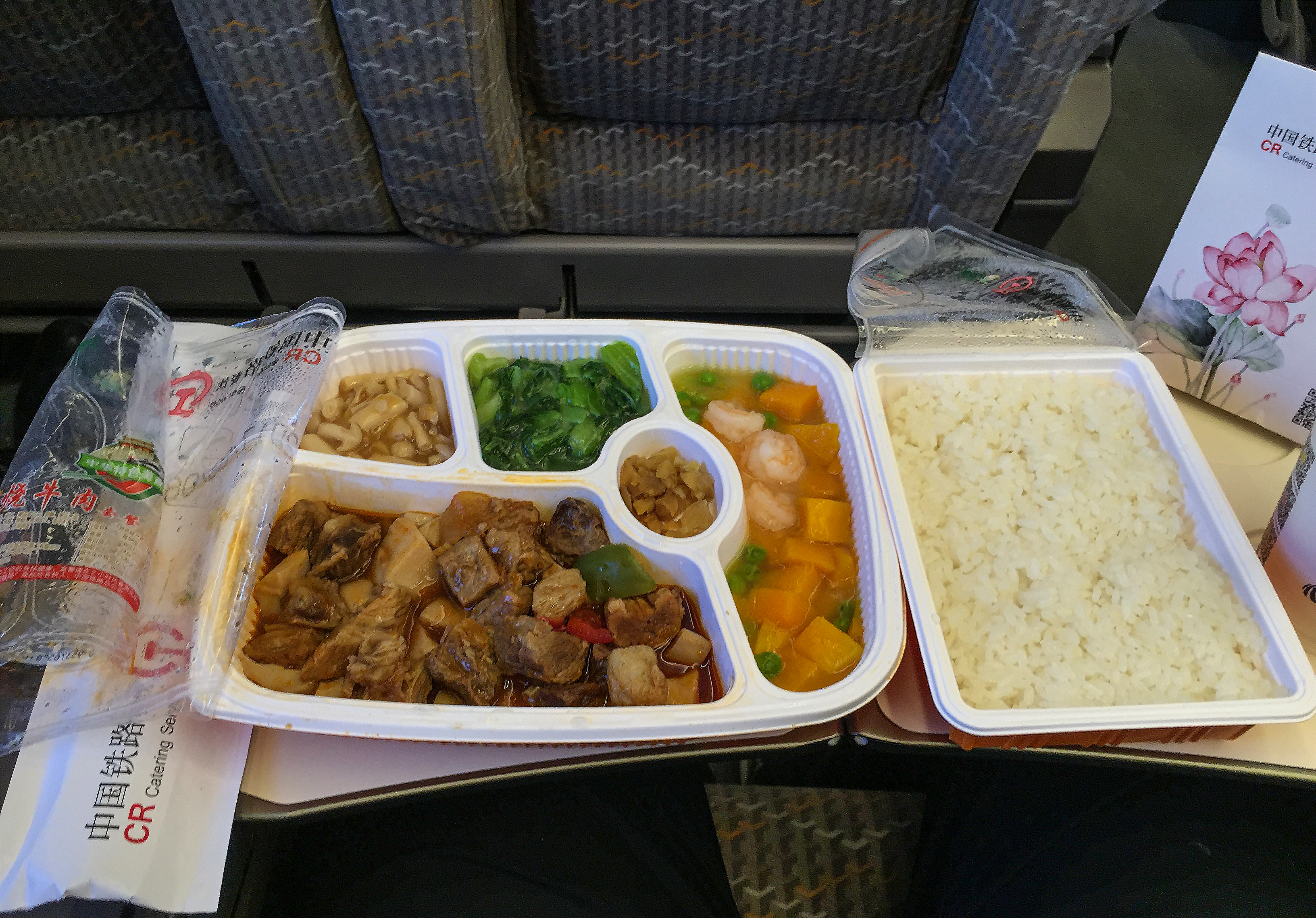 Tastes all well, although it's sold for 65.